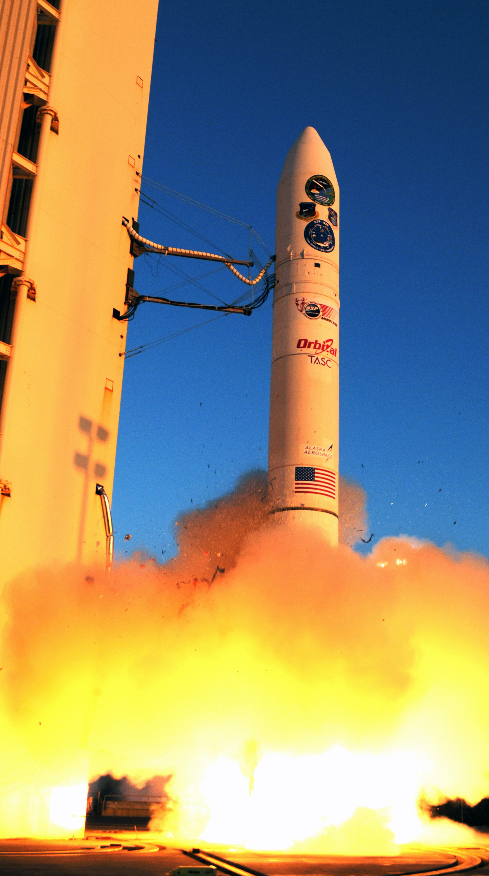 A Minotaur IV rocket carrying the Air Force Academy's FalconSat-5 satellite lifts off Nov. 19, 2010, from the Kodiak Launch Complex in Alaska. FalconSat is a capstone program that allows Academy cadets to design, build, test and operate a satellite. FalconSat-5 carried Space Test Program payloads to measure measure the ionosphere and its effects on radio frequency signals.